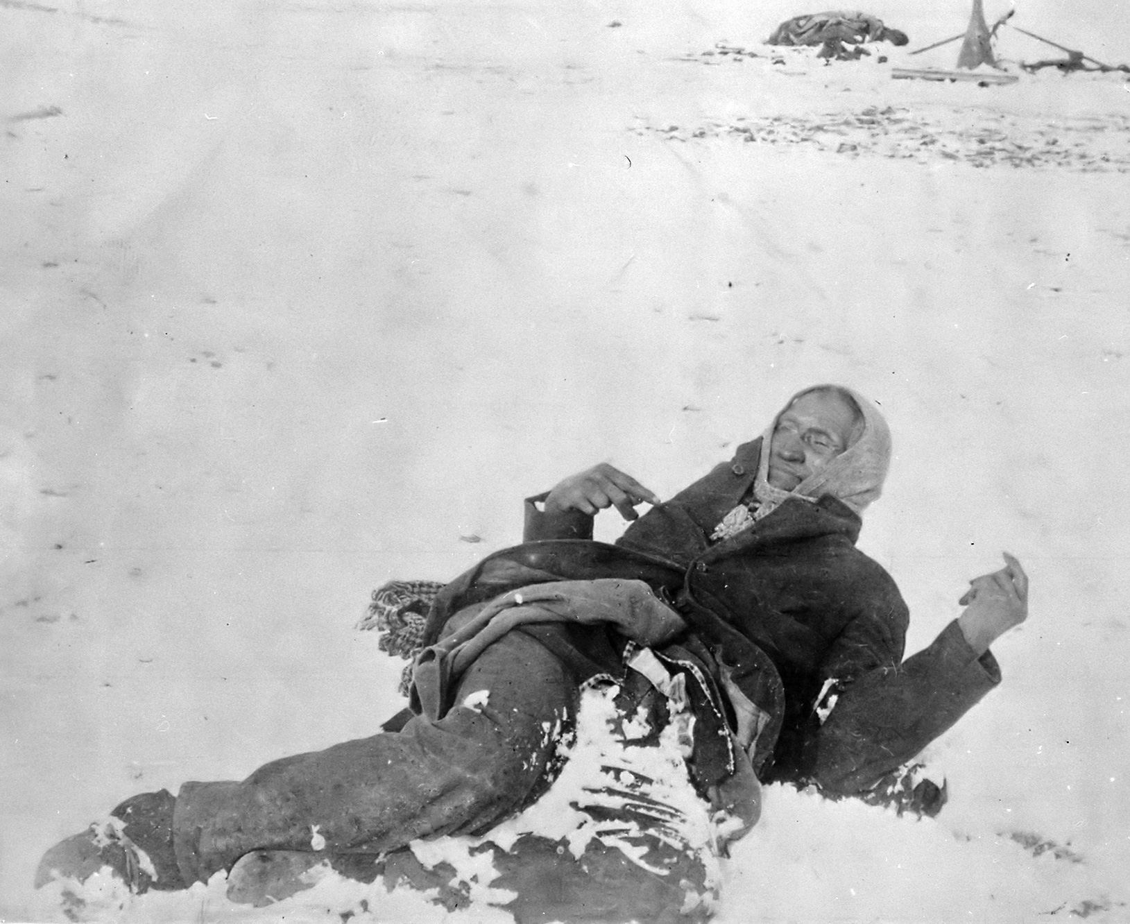 Miniconjou chief Spotted Elk (aka. Bigfoot) lies dead in the snow after massacre at Wounded Knee. Dead Bigfoot Lakotas leader Spotted Elk, (called by soldiers Bigfoot), after the massacre of Wounded Knee (photo of January 1, 1891). Carl Smith described him as January 7, 1891 in the "Chicago Inter-Ocean ': Big Foot lay as if in dignified seclusion ... Clad in civilian clothes decent, his head wrapped in a shawl. He wore a woolen underwear and pointed to the overall look of someone fairly well cared. He had several gunshot wounds, and if he could realize what hurt him, the signs have quite disappeared. Itinerant photographer propped the old man, and when he lay helpless, his portrait done ... But he spared the usual treatment for a nice appearance.